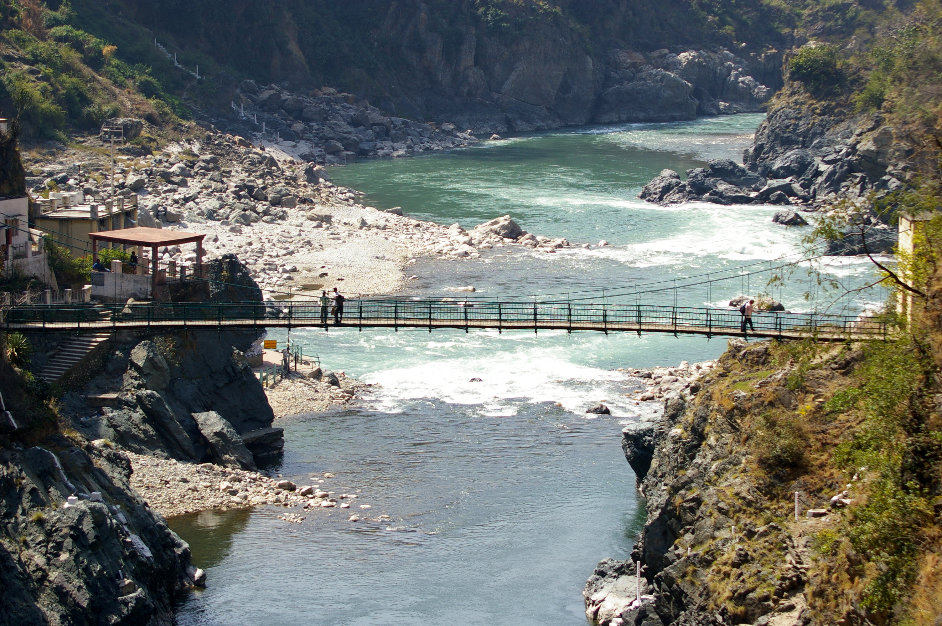 Mandakini joins Alaknanda at Rudraprayag